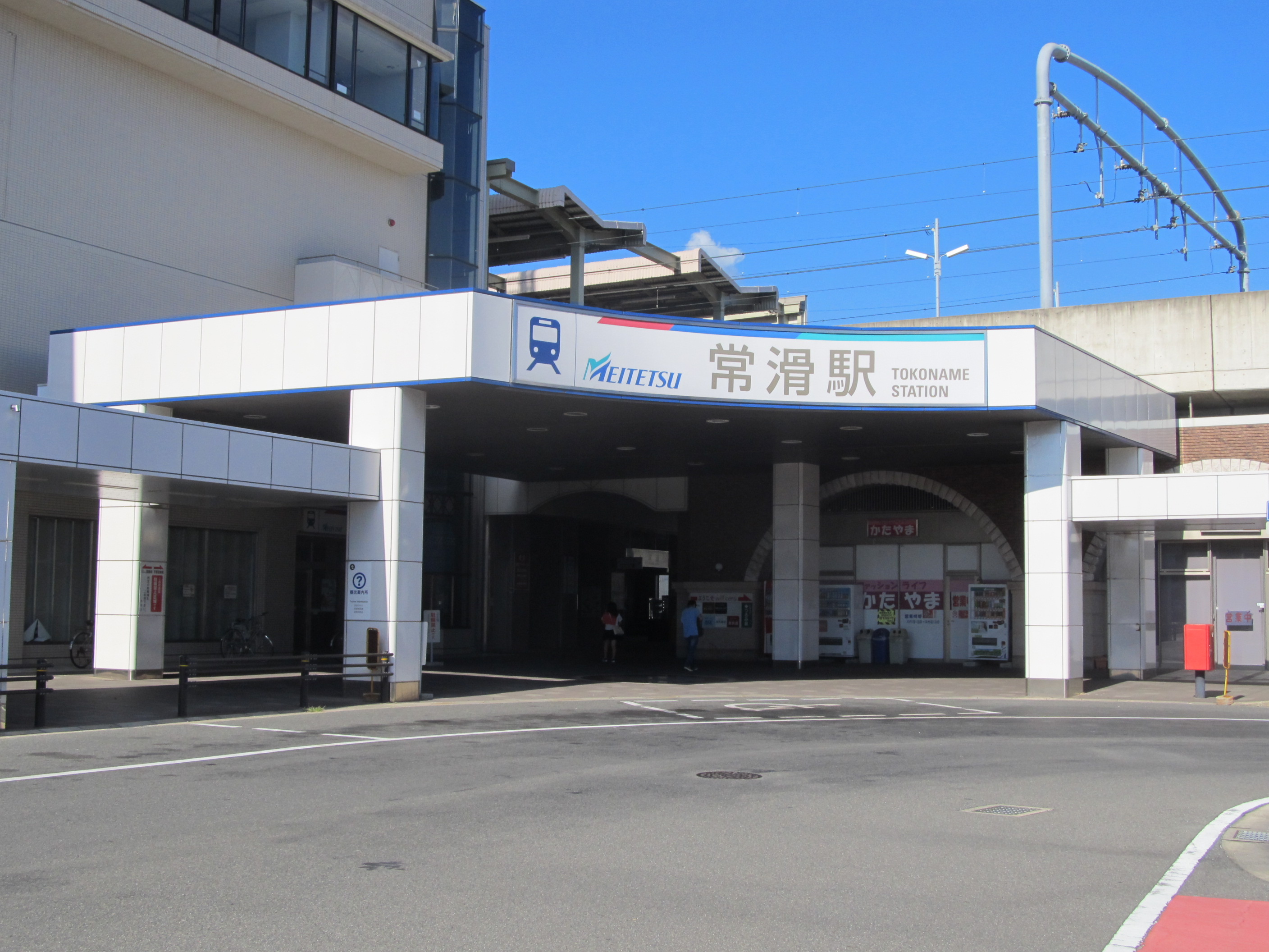 Nagoya Railroad Tokoname Line Tokoname Station WestGate